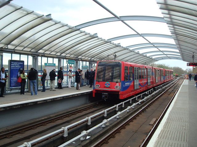 Crossharbour Docklands Light Railway Station